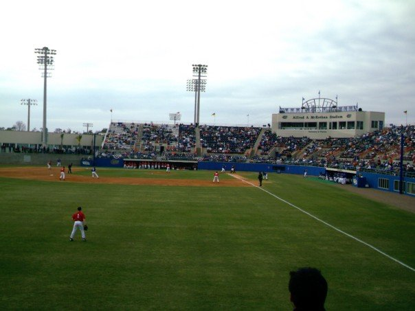 Alfred A. McKethan Stadium viewed from the outfield bleachers. This was taken by me early in the 2007 season.